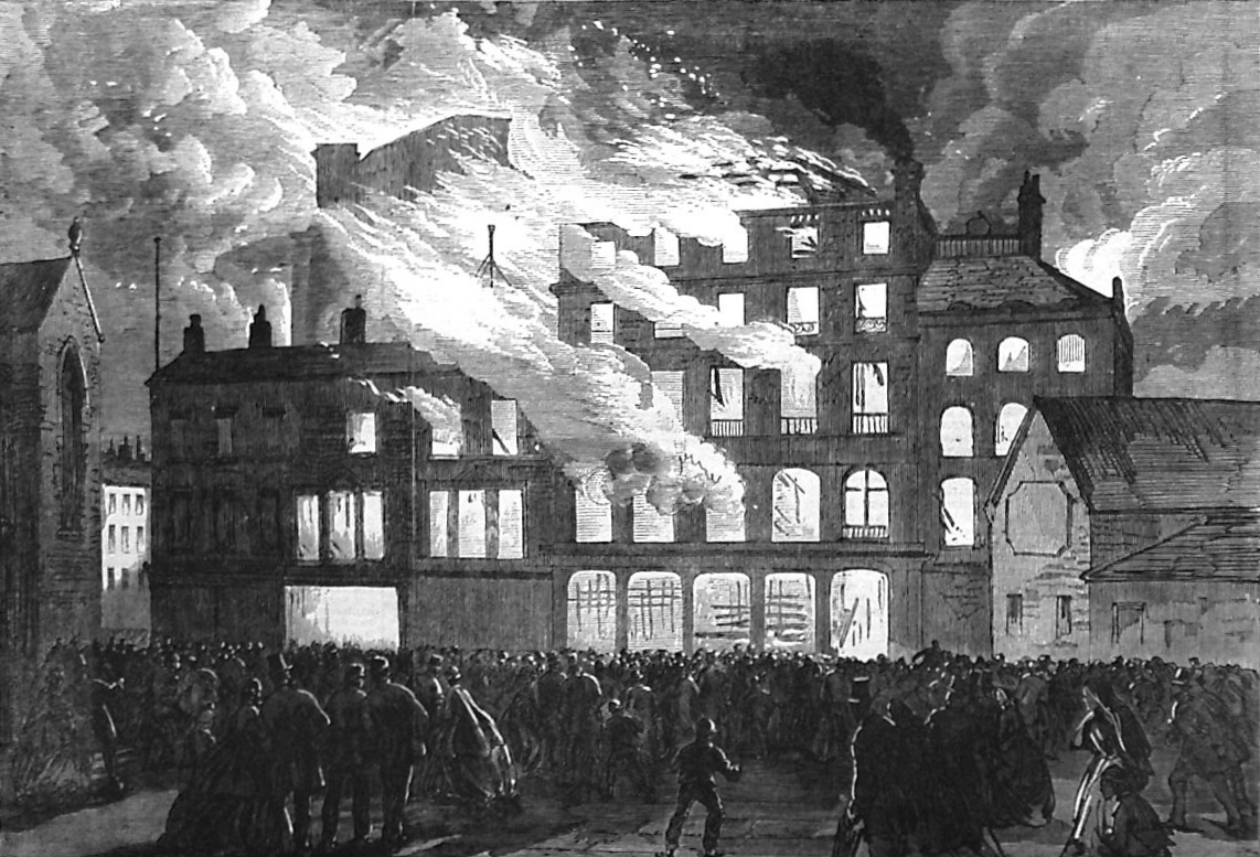 Drawing of the Destruction of Compton House, Liverpool. Published in The Illustrated London News 9th December 1865.